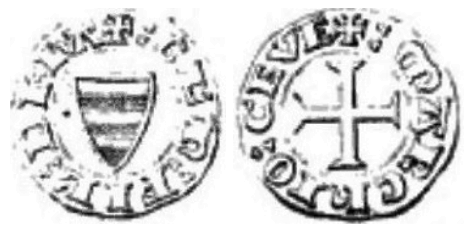 Obverse and reverse of a silver coin minted by the Marchesi di Ceva in the 14th century (coin 2 of File:Coins of the Marquisate of Ceva.jpg)